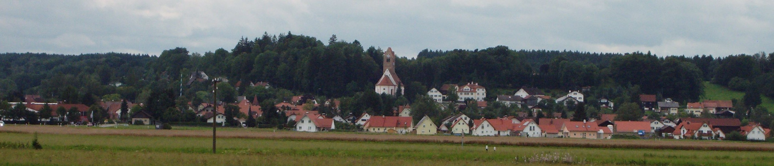 Leeder (Fuchstal), general view of the village from north-east.